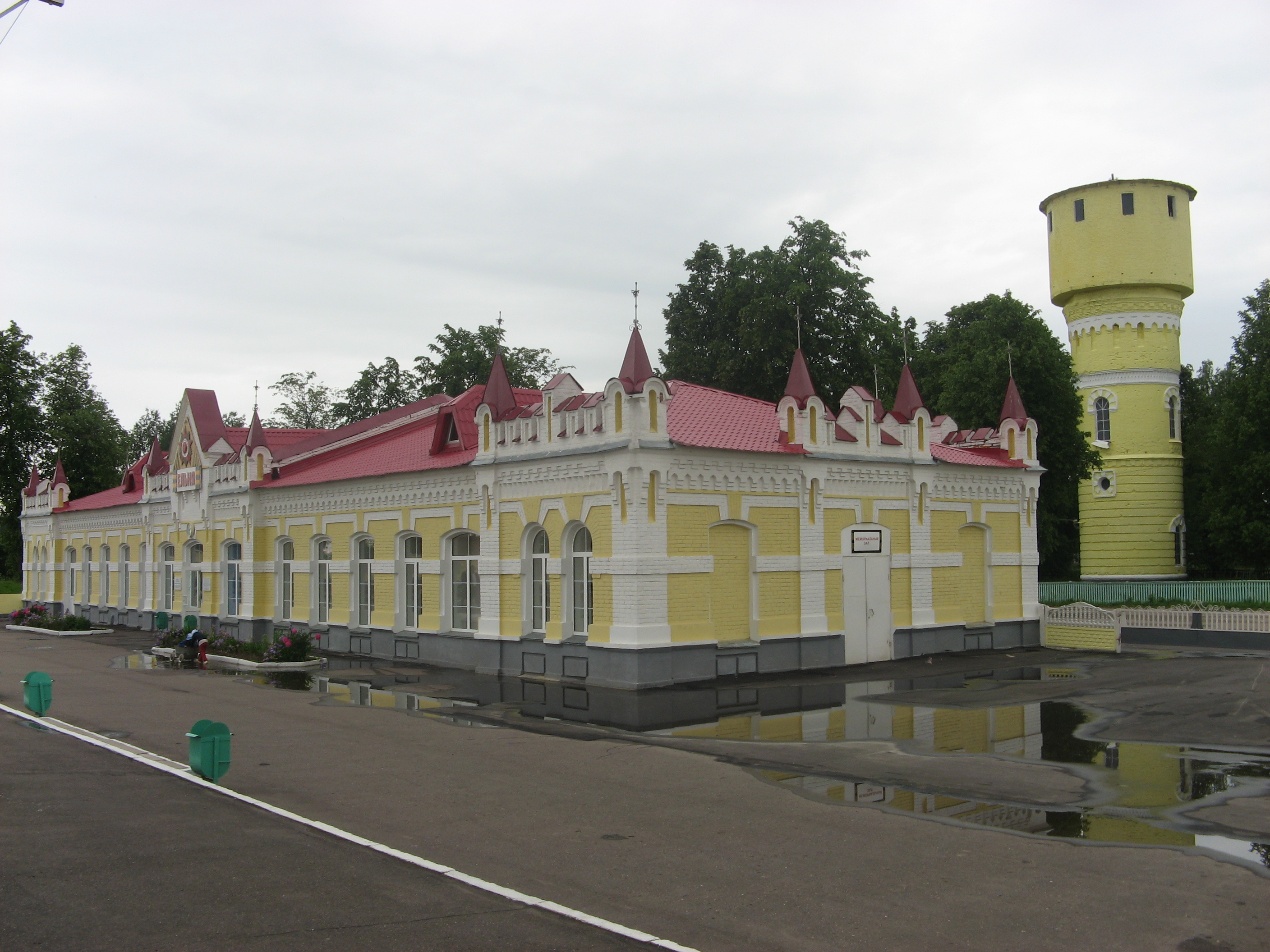 жд вокзал в Ельне